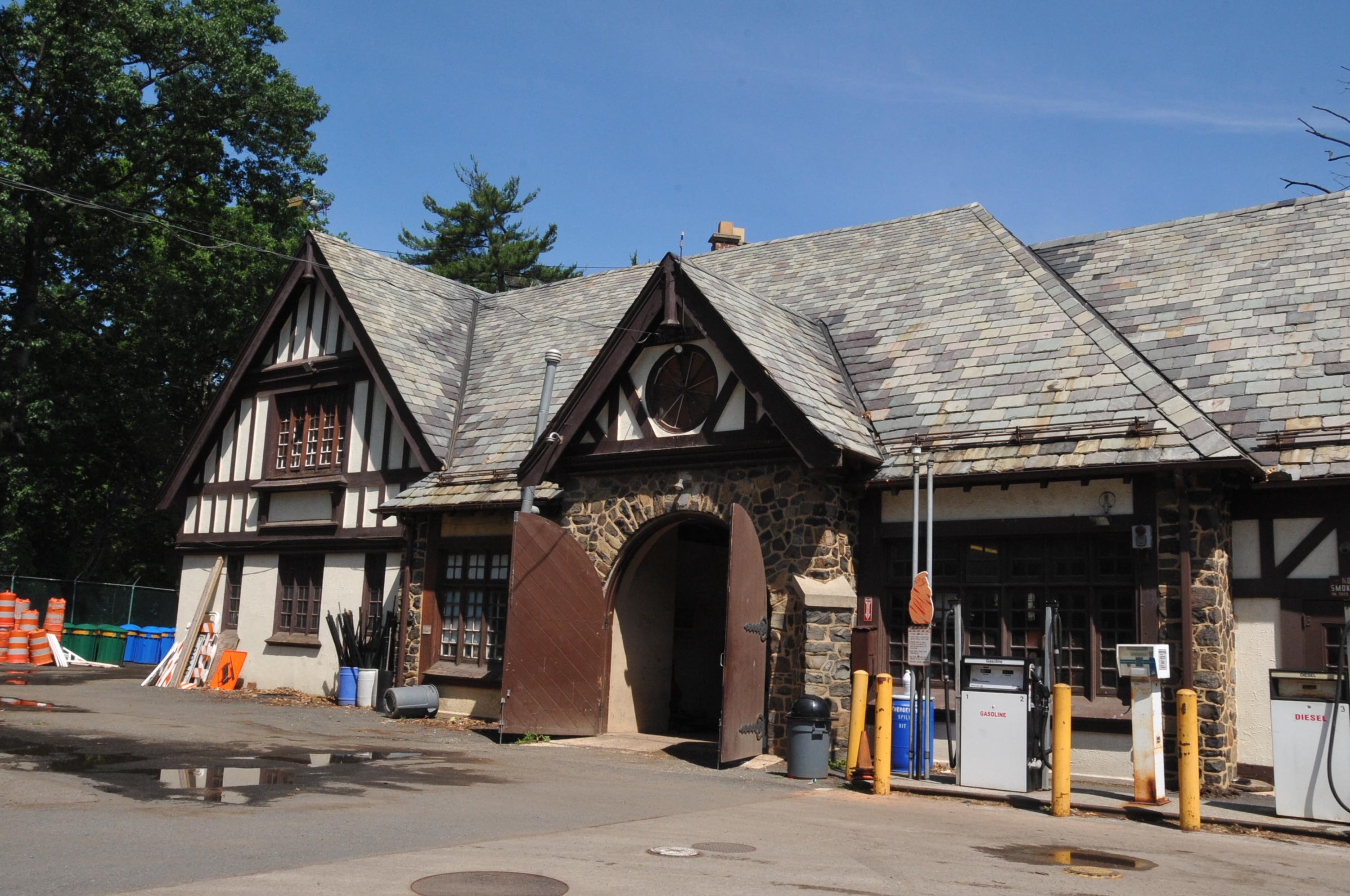 TWO TUDOR STYLE BUILDINGS - ONE IS USED BY THE SHERIFF OF UNION COUNTY AND THE OTHER IS A GARAGE AND MAINTENANCE BUILDING